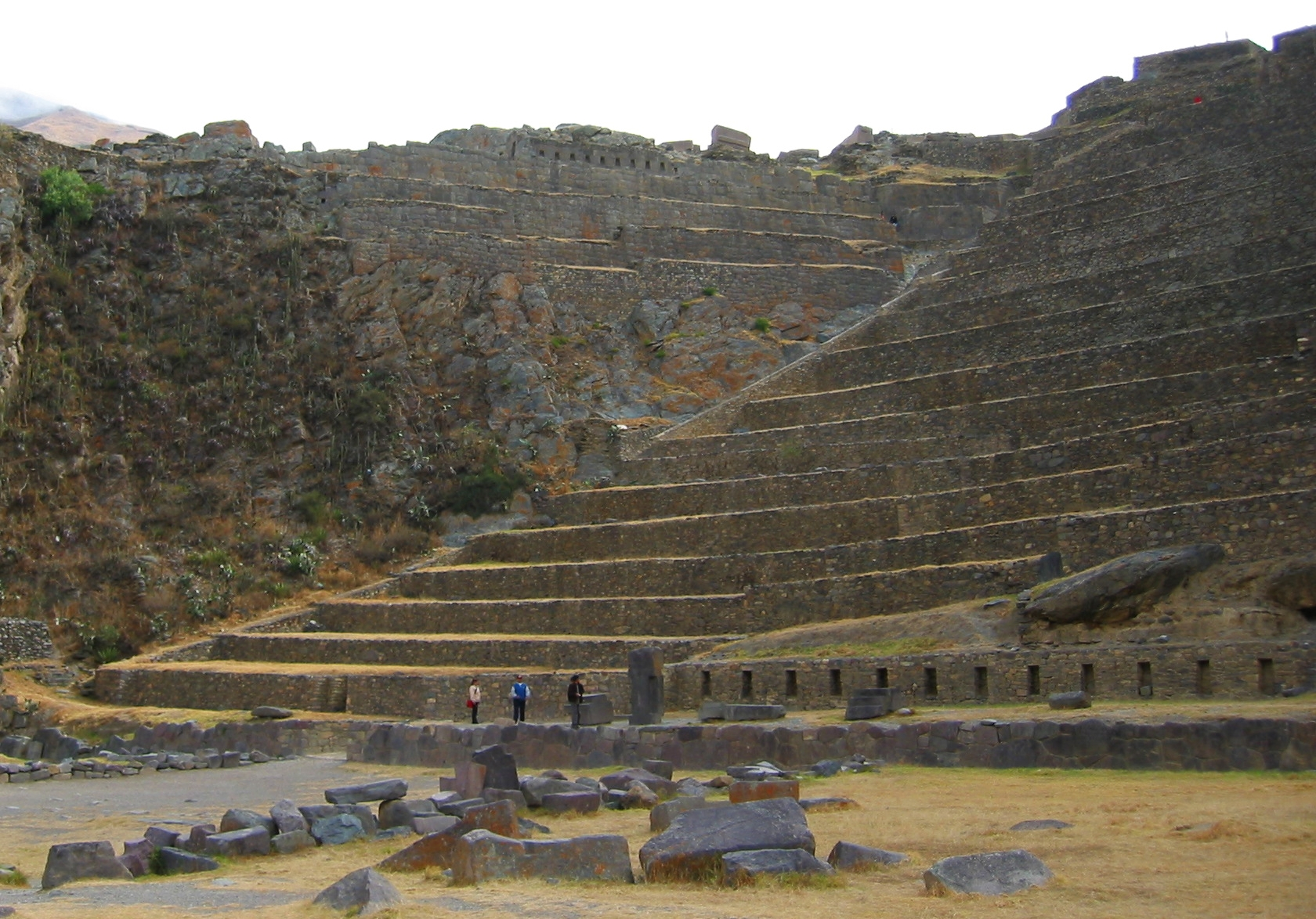 Terraces of the Incan city Ollantaytambo. Picture taken July 2003.